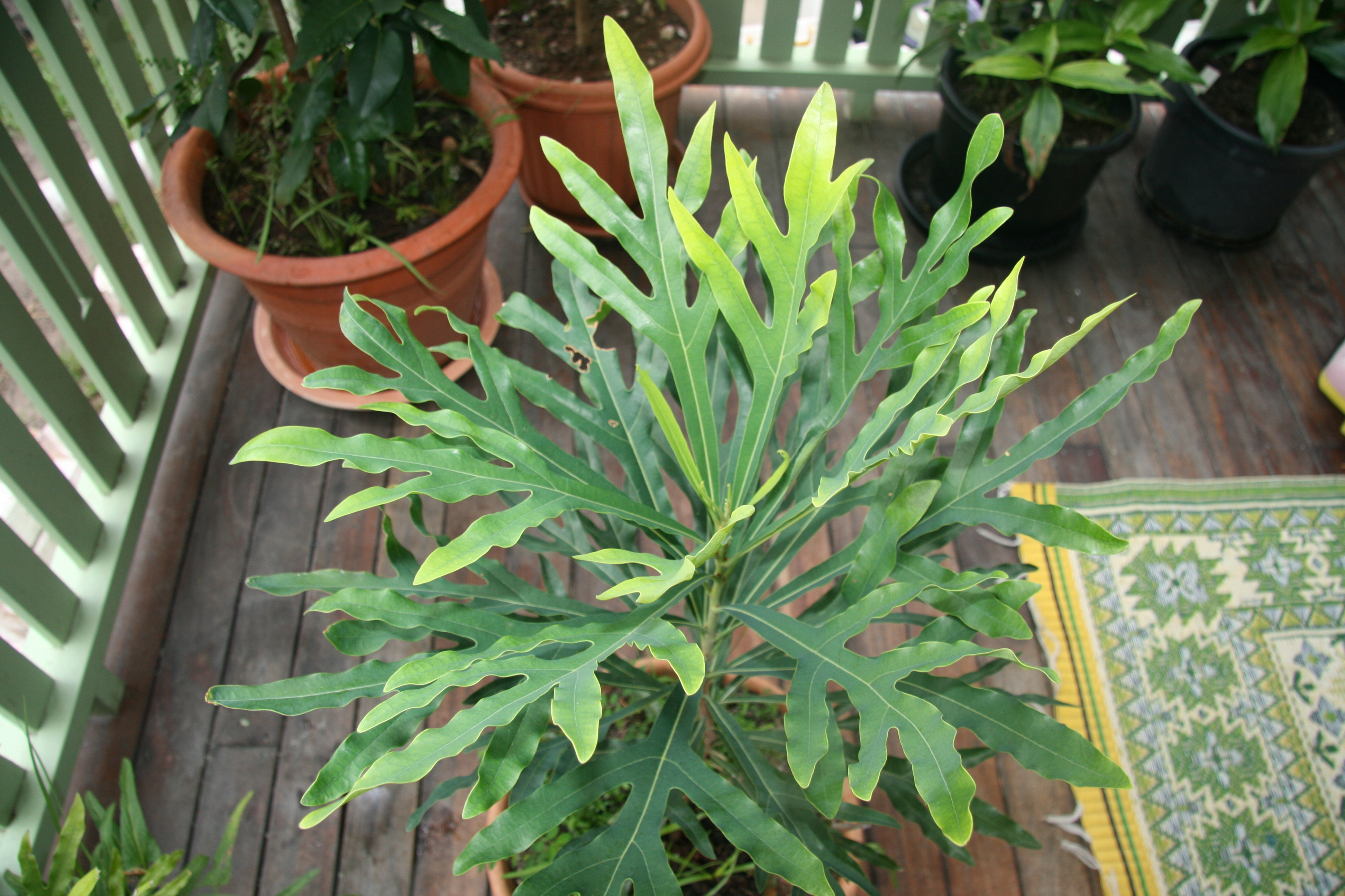 Alloxylon flammeum (as pot plant) with lobed immature leaves